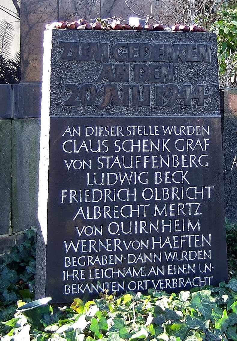 Memorial stone for the 20th July plot victims: "In Memory of the 20th July 1944. At this place [names] were buried. Later their bodies were moved to an unknown location"